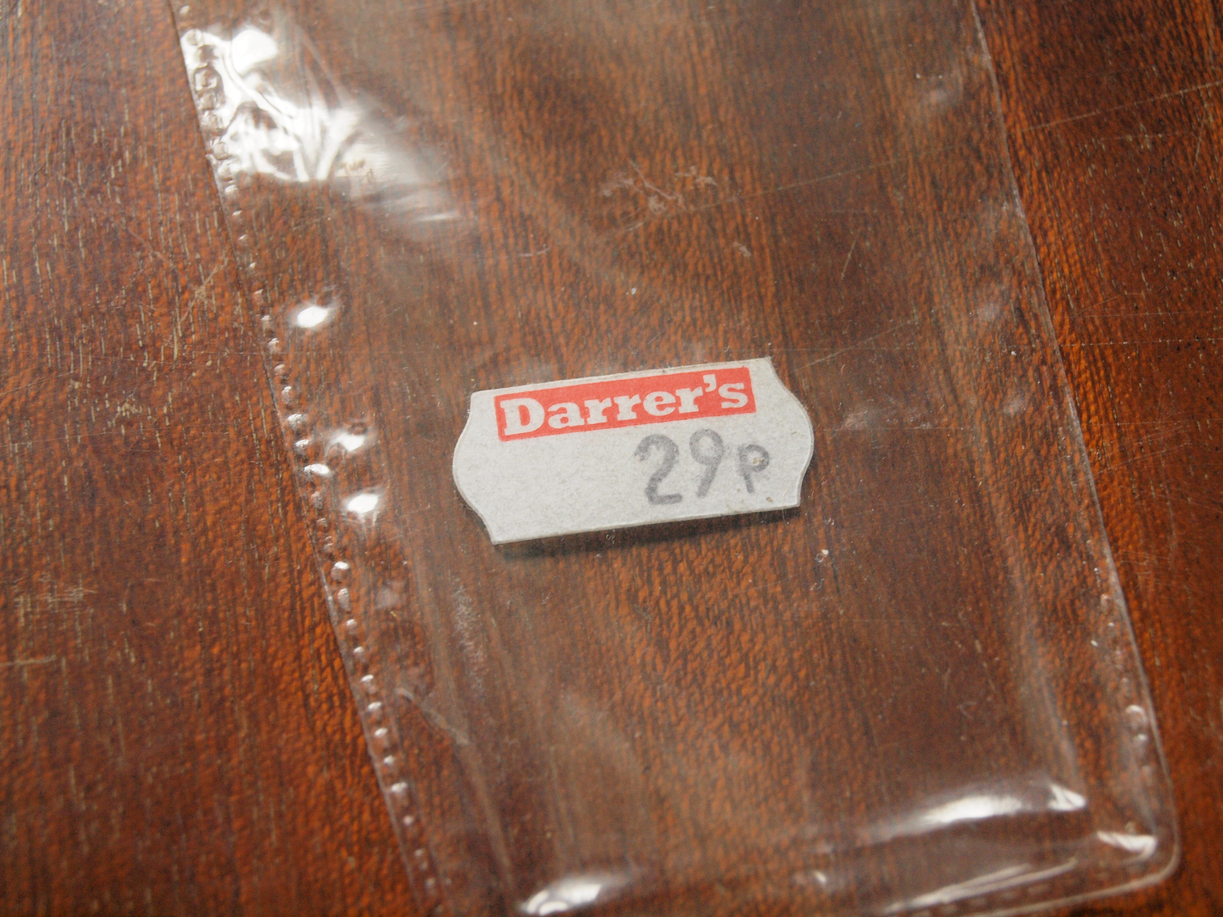 A Darrers price tag sticker, in Irish pounds.